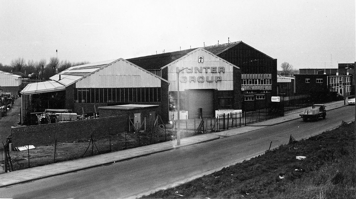 Hunter Plastics factory in Nathan Way, SE London about 1970.